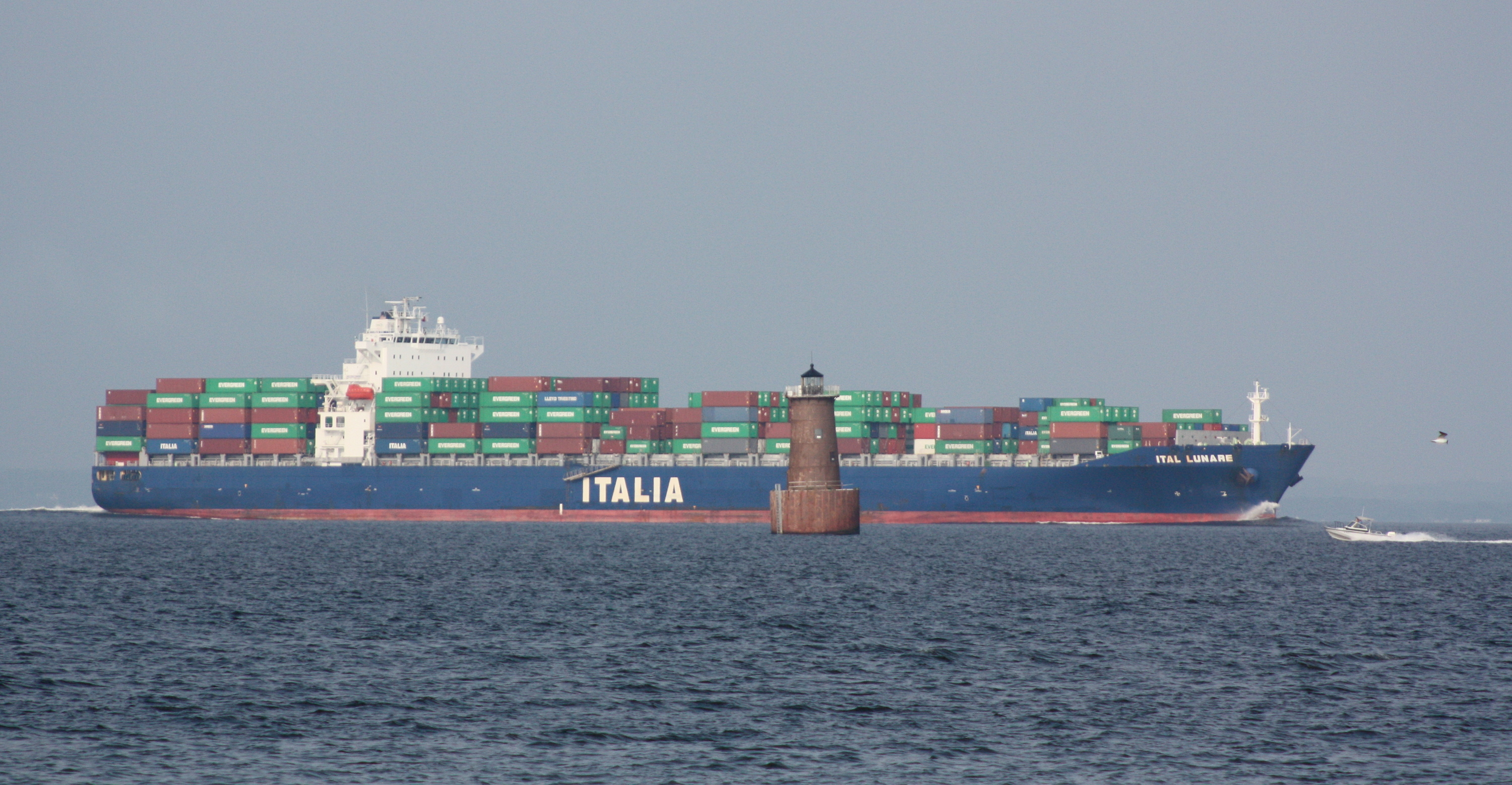 The container ship Ital Lunare near Bloody Point Bar Light in Cheasapeake Bay.